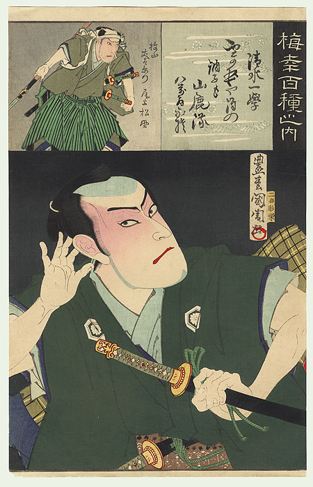 An ukiyo-e of Kikugorō Onoe V as Simizu Ichigaku.